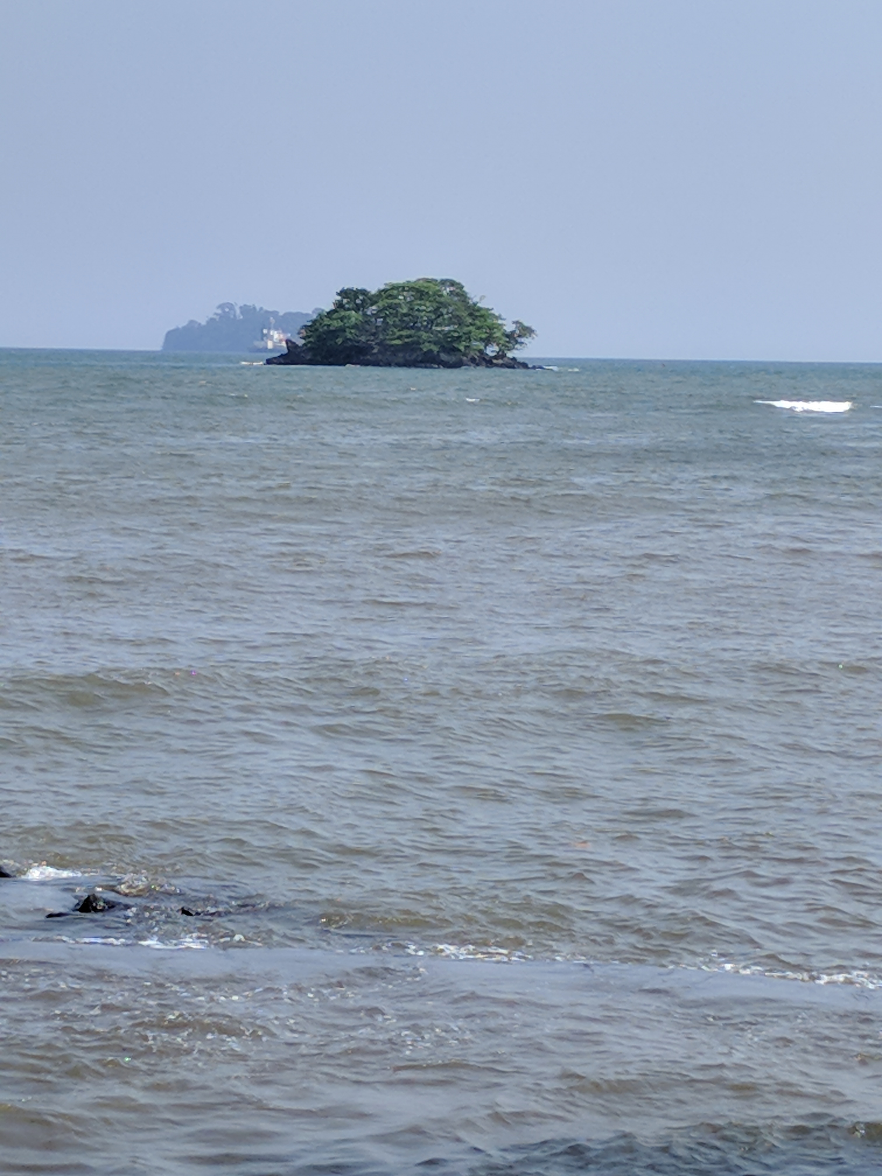 Back view of Botaland Island from down beach Limbe, South West Region of Cameroon